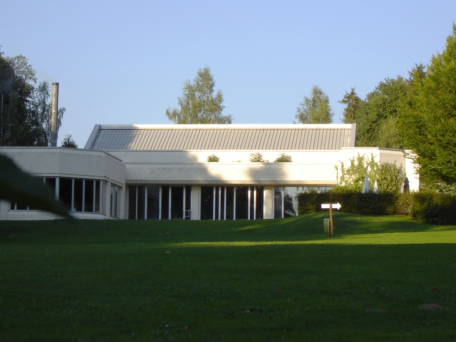 Waldbrunn (Odenwald) health resort